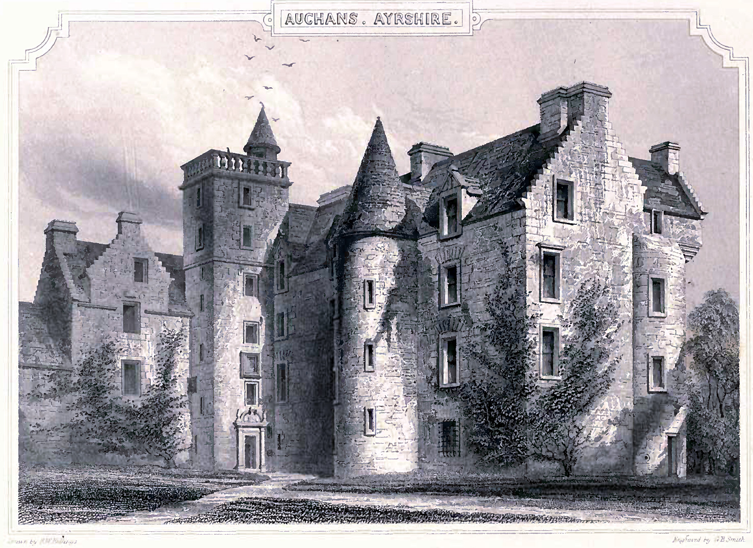 Auchans Castle near Dundonald, Ayrshire, Scotland.